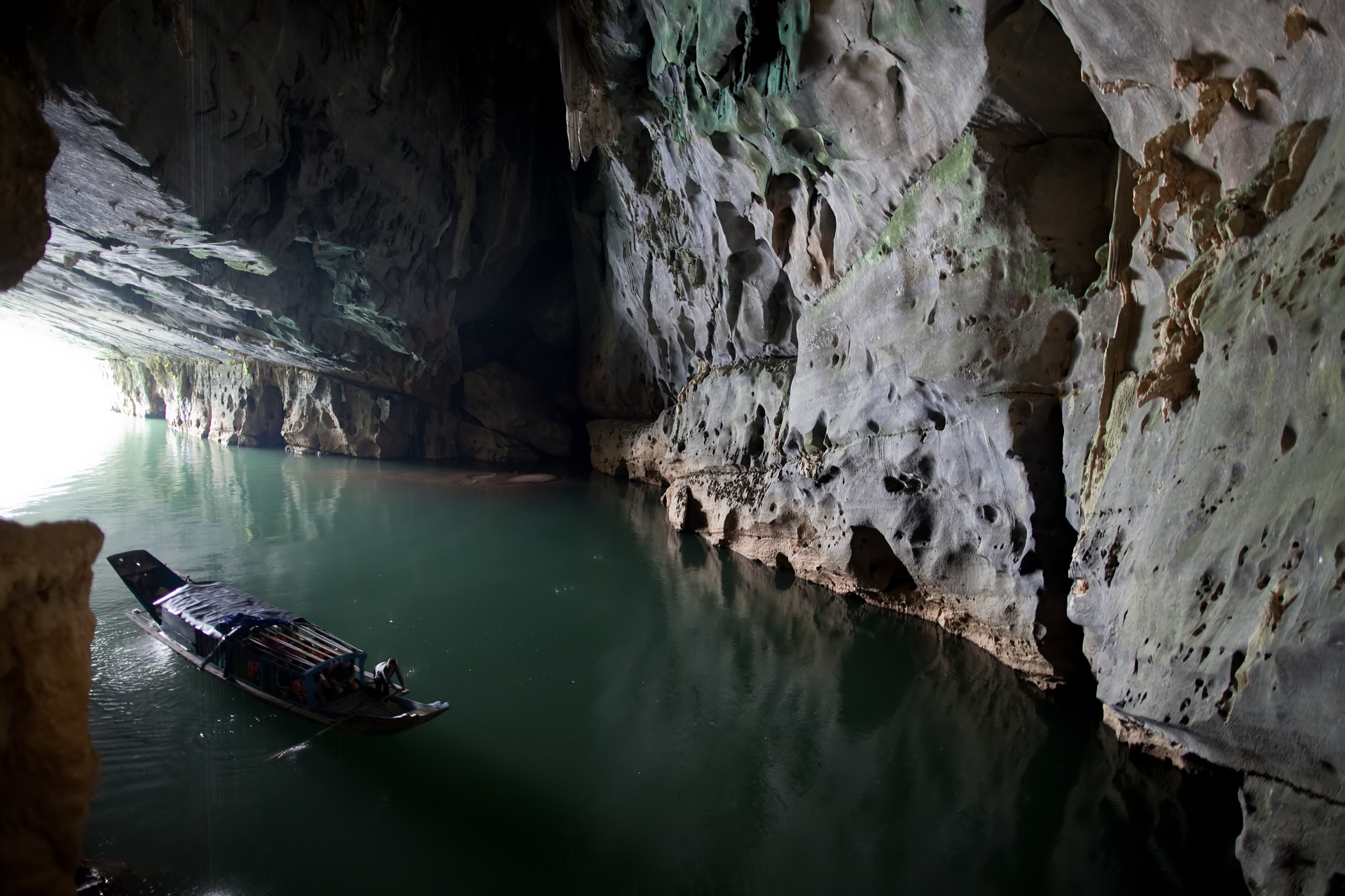 River flowing into the Phong Nha cave, Phong Nha-Kẻ Bàng National Park, Vietnam.